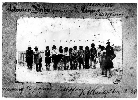 Solomon Bibo (#15) (July 15, 1853 – May 4, 1934), governor of the Acoma Pueblo. Taken for his 1885-86 term as governor of the Pueblo, presumably in 1885. The words at the top read:"Solomon Bibo governor of Acoma & his officers 1885 - 1886"; According to notes on the photo:"From left to right: 1) Jose Miguel Chino 2) Pedro Sanchez (Indian agent) 3) Hashiti* Martin de Valle 4) Jose Berendo (principal) 5) Santiago Orilla 6) Santiago Conepo Linazeteah 7) Lorenzo Pancho 8) Lorenzo Lina 9) Larenzo Schaurva Kruz 10) Toribio Mateai 11) Jose Ant Aujune (Bibo) 12) Napoleon Pancho (Bibo) 13) Andres Ortiz (Interpreter) 14) Mr. Read, Secretary of Indian Agent 15) Solomon Bibo, Governor of Acoma"